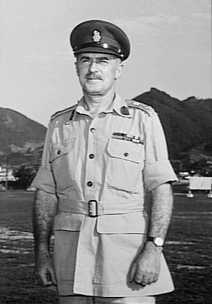 Hiro, Japan. Portrait of Brigadier R. G. Pollard, DSO, who succeeds Brigadier I. R. Campbell, DSO and Bar as Commander, HQ Australian Army Component, British Commonwealth Forces, Korea (BCFK), in Japan.